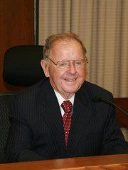 Photo in Senate Committee